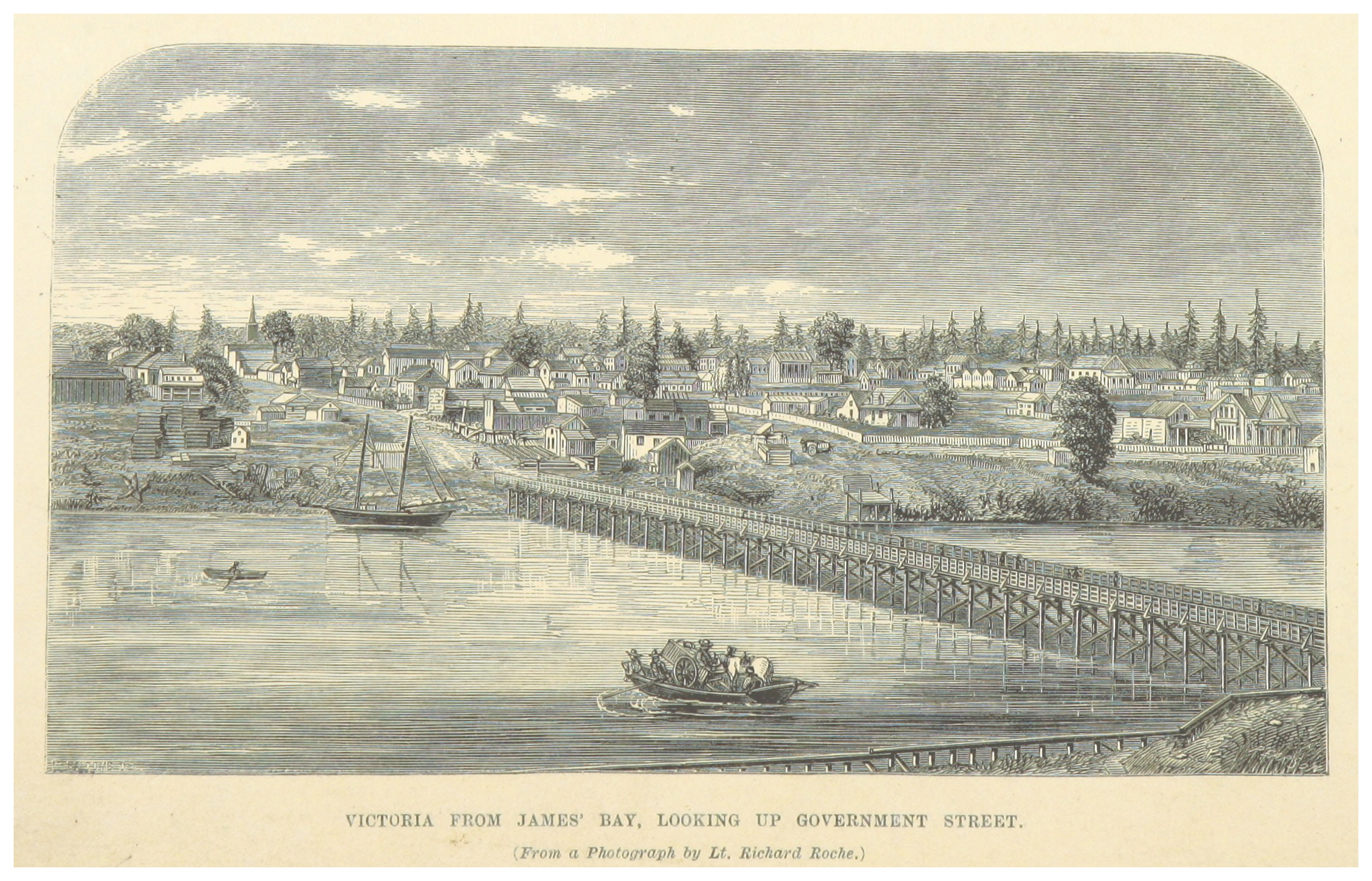 Page of 10 of Travels in British Columbia, with the narrative of a yacht voyage round Vancouver's Island